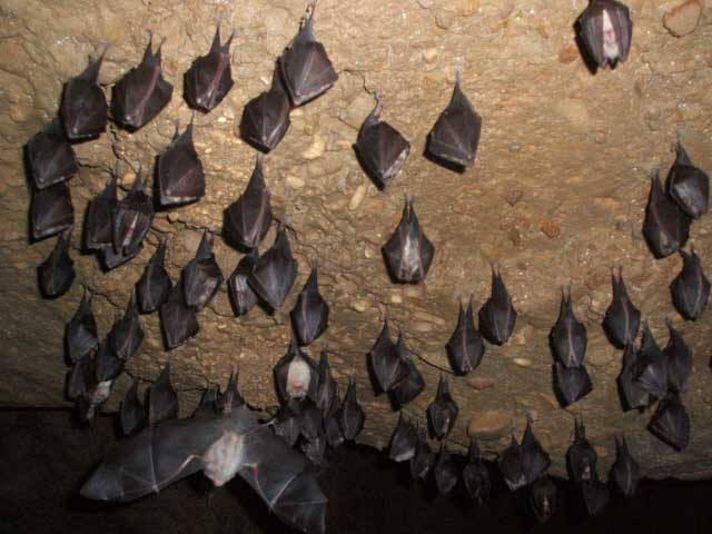 Rhinolophus hipposideros in Szinlő Cave, Hungary.